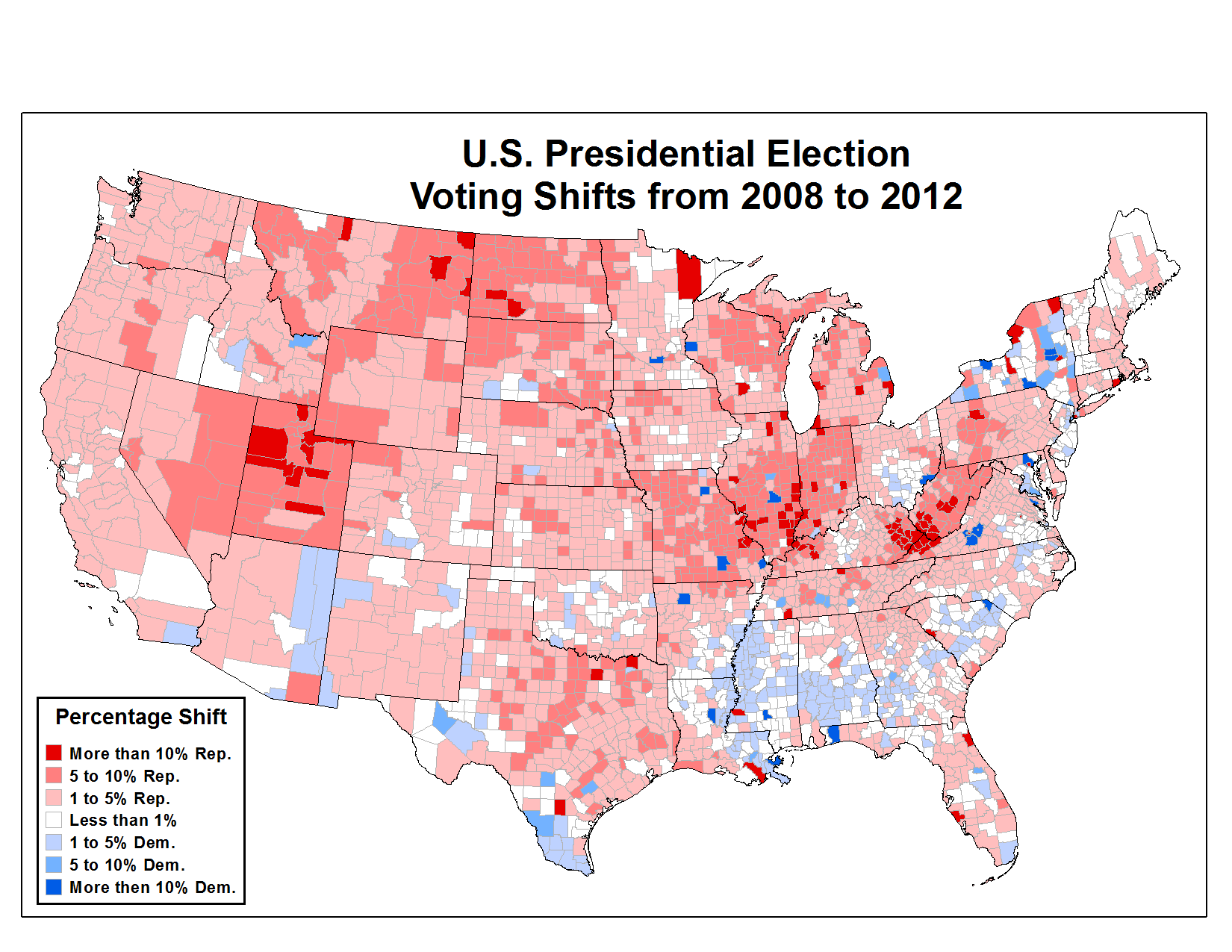 This map shows the shift in voting patterns from the 2008 U.S. presidential election and the 2012 U.S. presidential election.